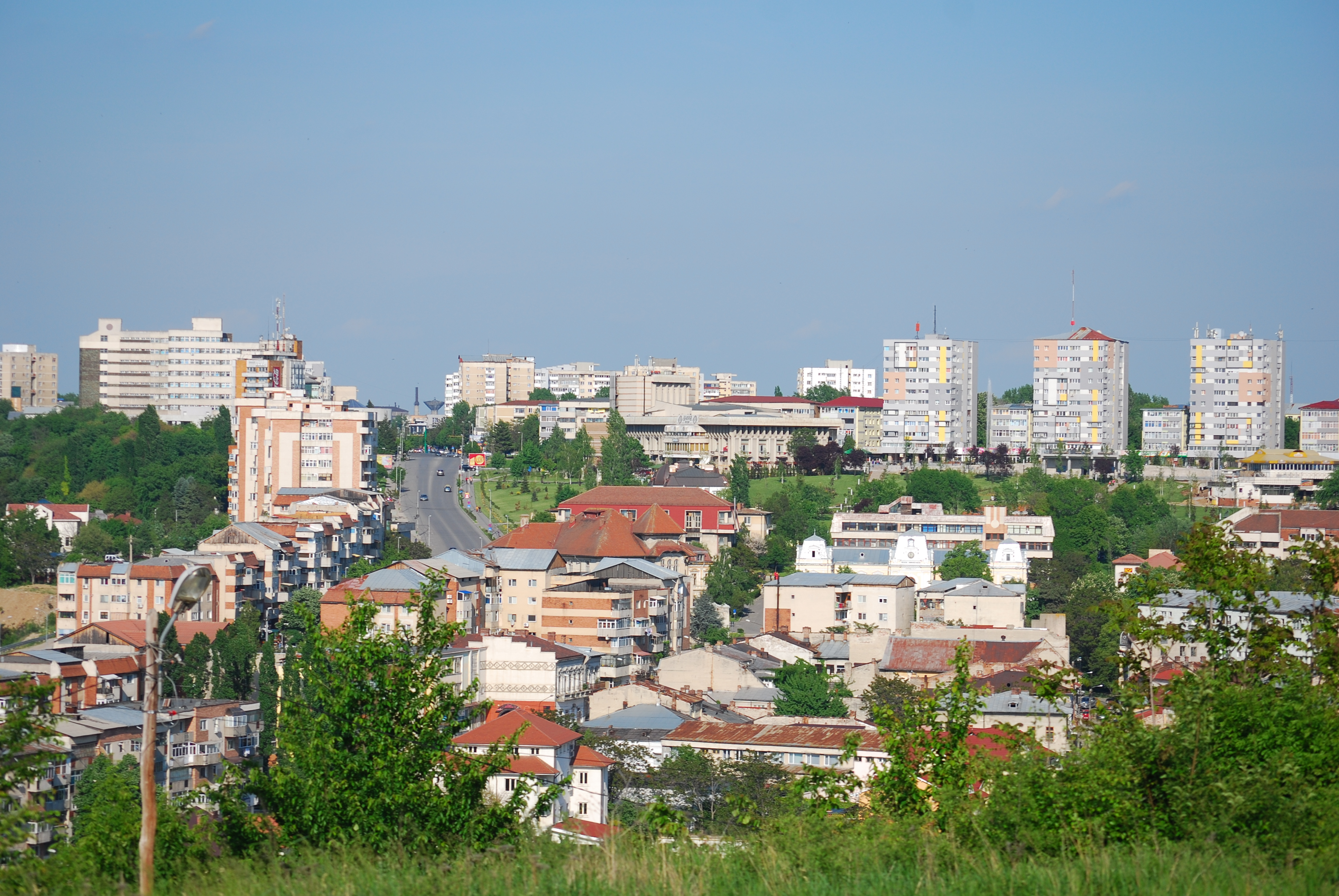 Slatina, Romania, city center seen from Grădişte hillRomână: Centrul oraşului Slatina din România, văzut de pe dealul Grădişte